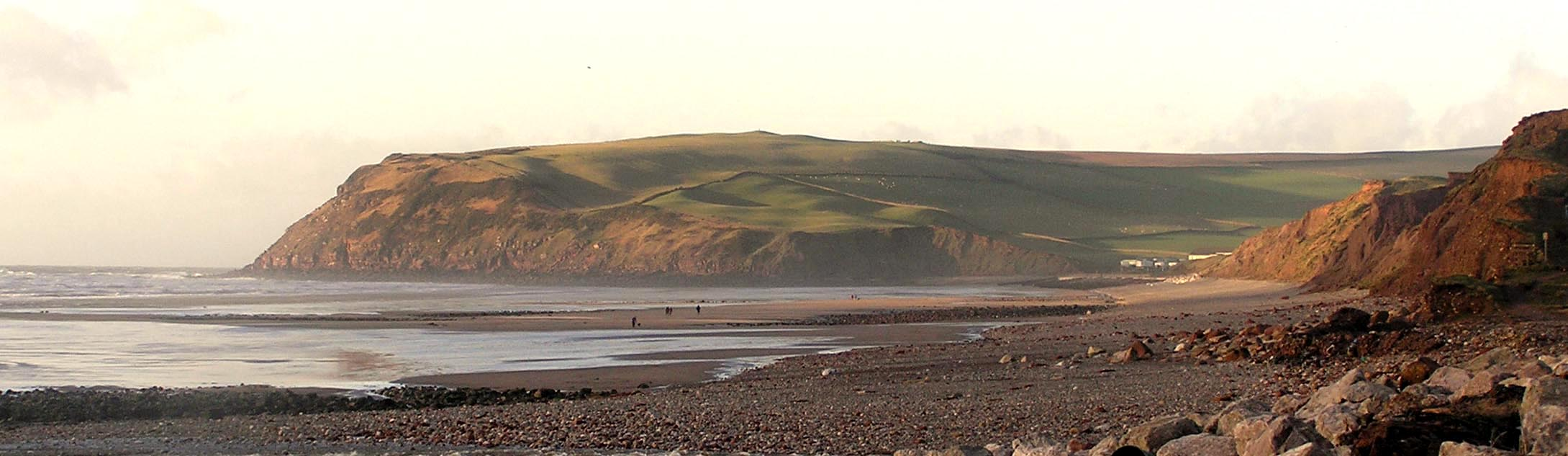 St Bees South Head from Seamill Lane. St Bees Cumbria.